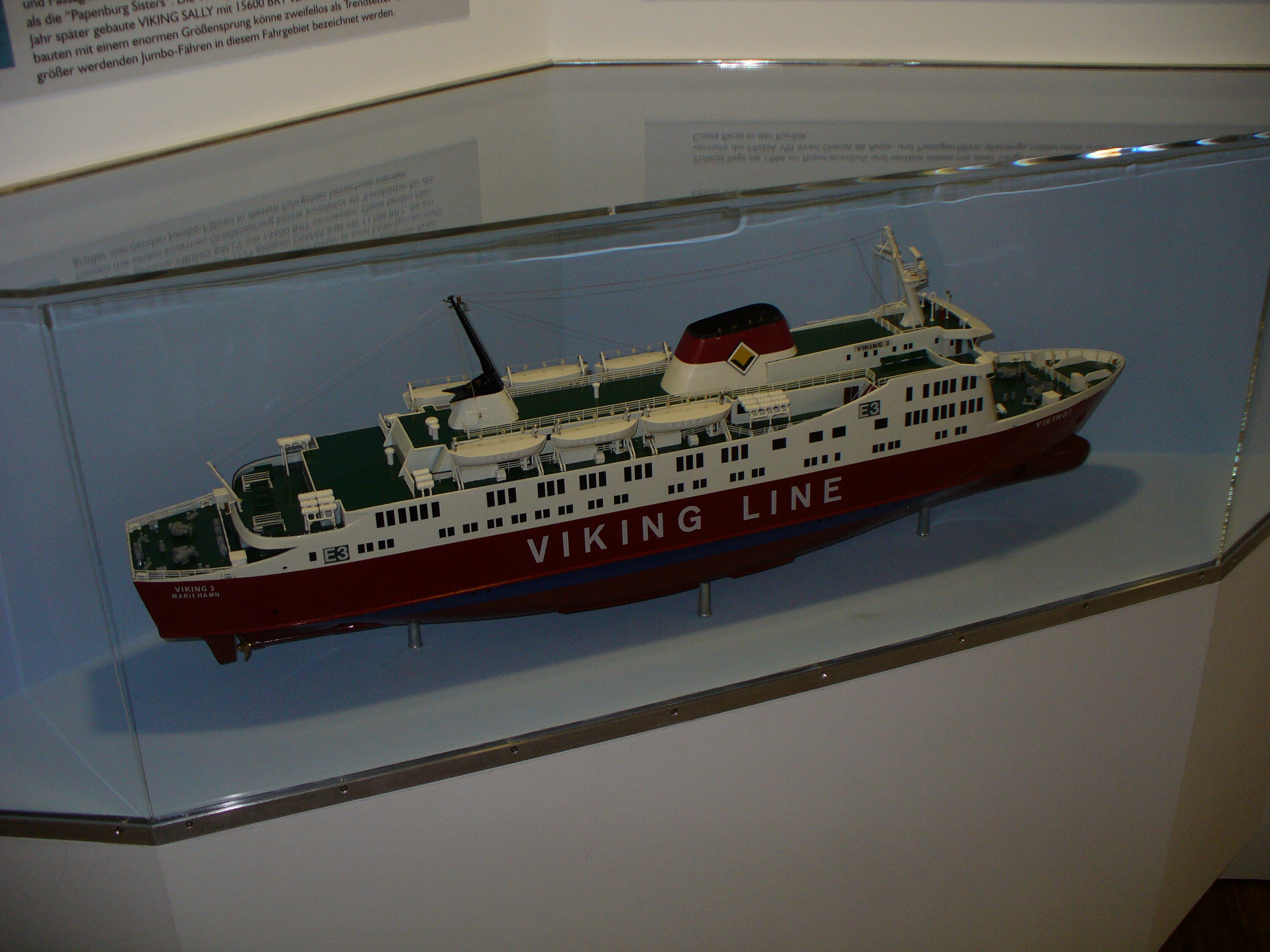 A ship model of the VIKING LINE, located at the Papenburger Werftsmuseum